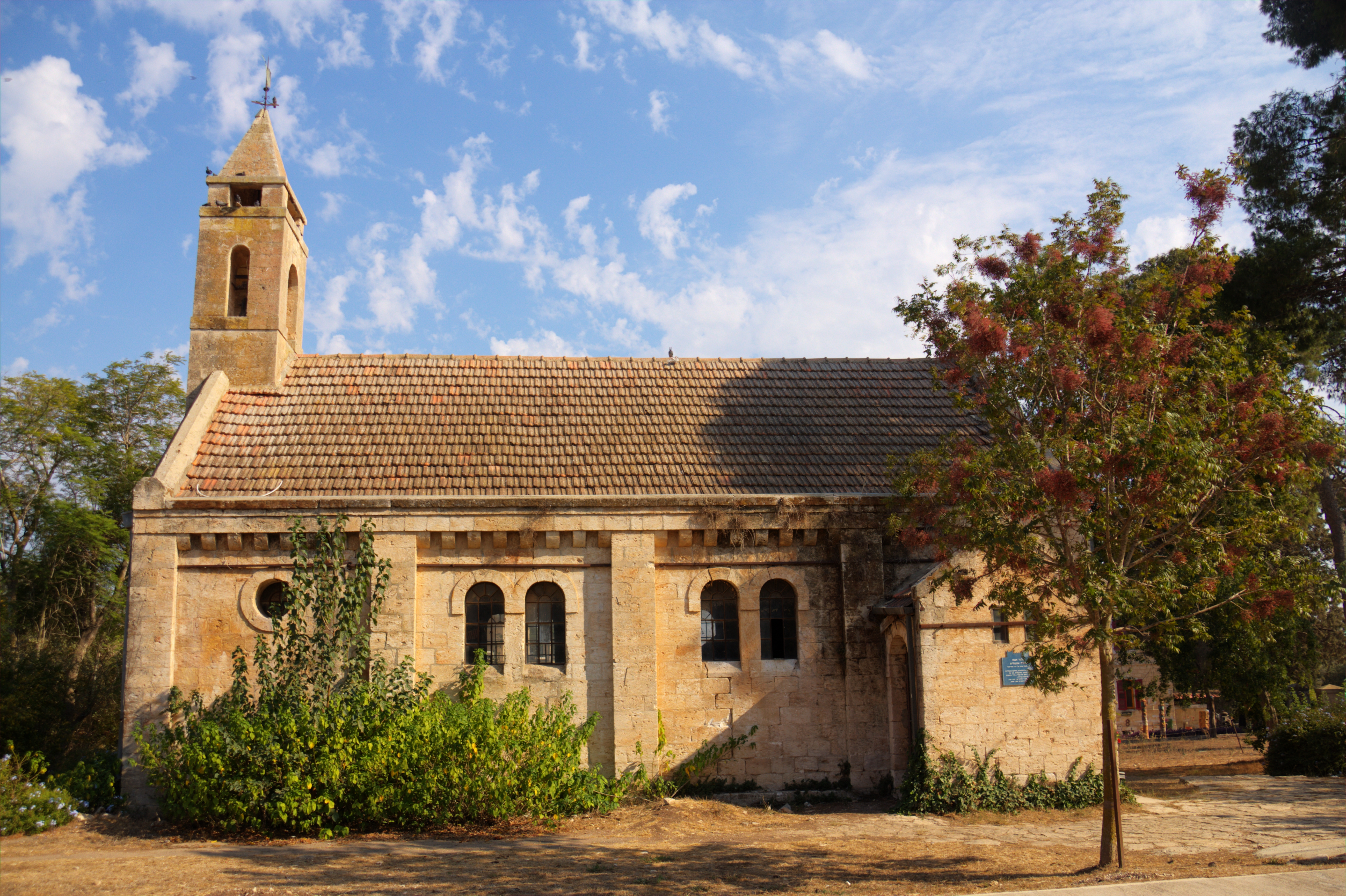 Waldheim Church (Allonei Abba) This is a photo of a heritage building in Israel. Its ID is 6-0429-002